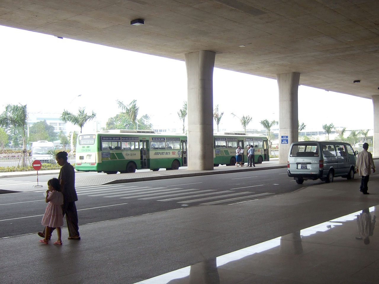 152 Airport Bus at TanSonNhat(SGN) Airport Vietnam